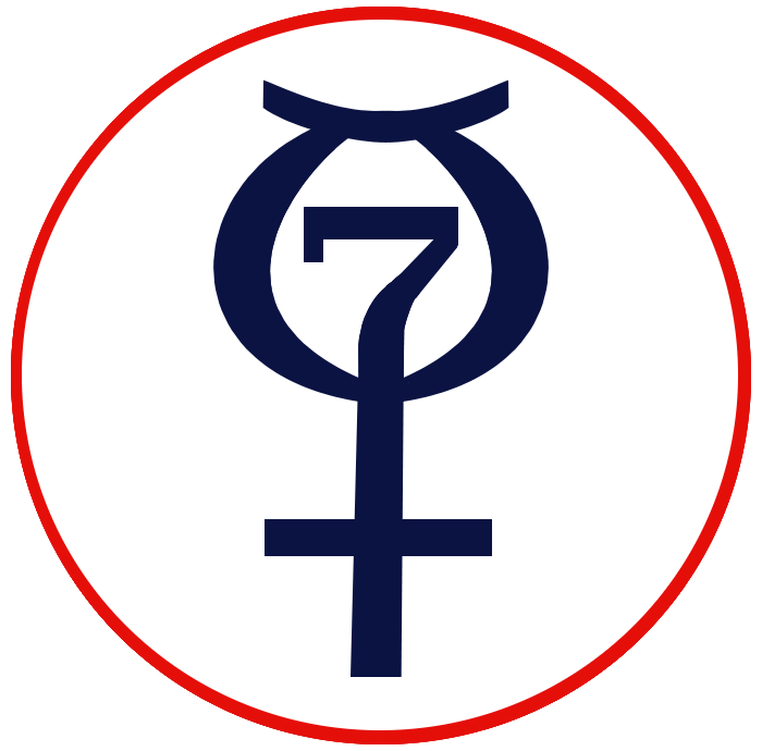 Image based off of patch found here